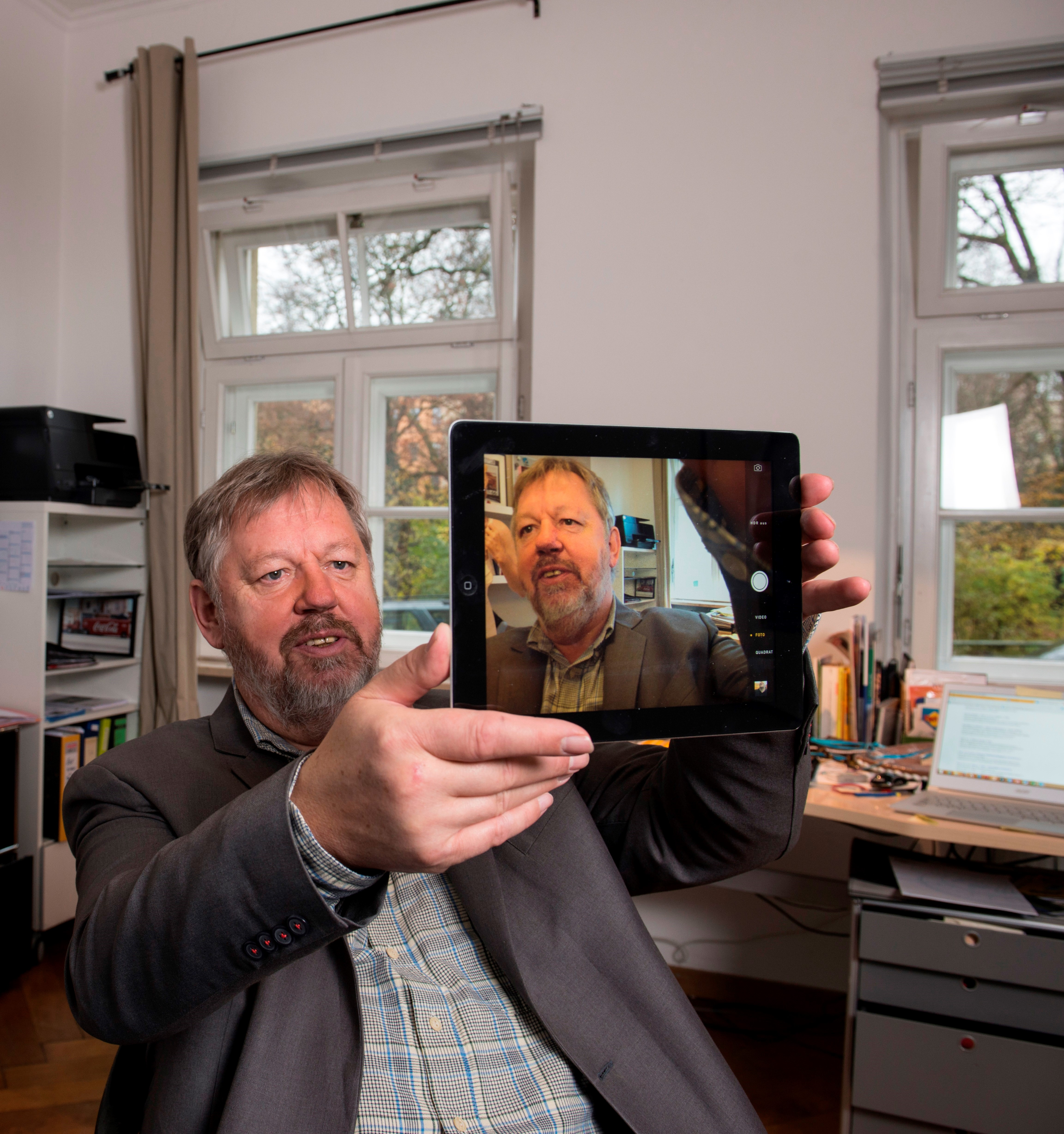 Prof. Dr. Claus Tully for "Bild der Wissenschaft" by Volker Steger, München, 2015.